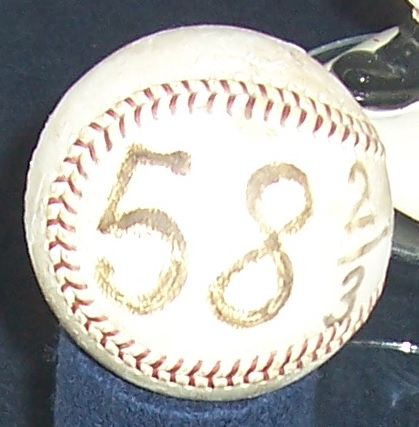 The ball thrown for the final out of Don Drysdale's consecutive scoreless innings streak in 1968, on display at the National Baseball Hall of Fame and Museum.